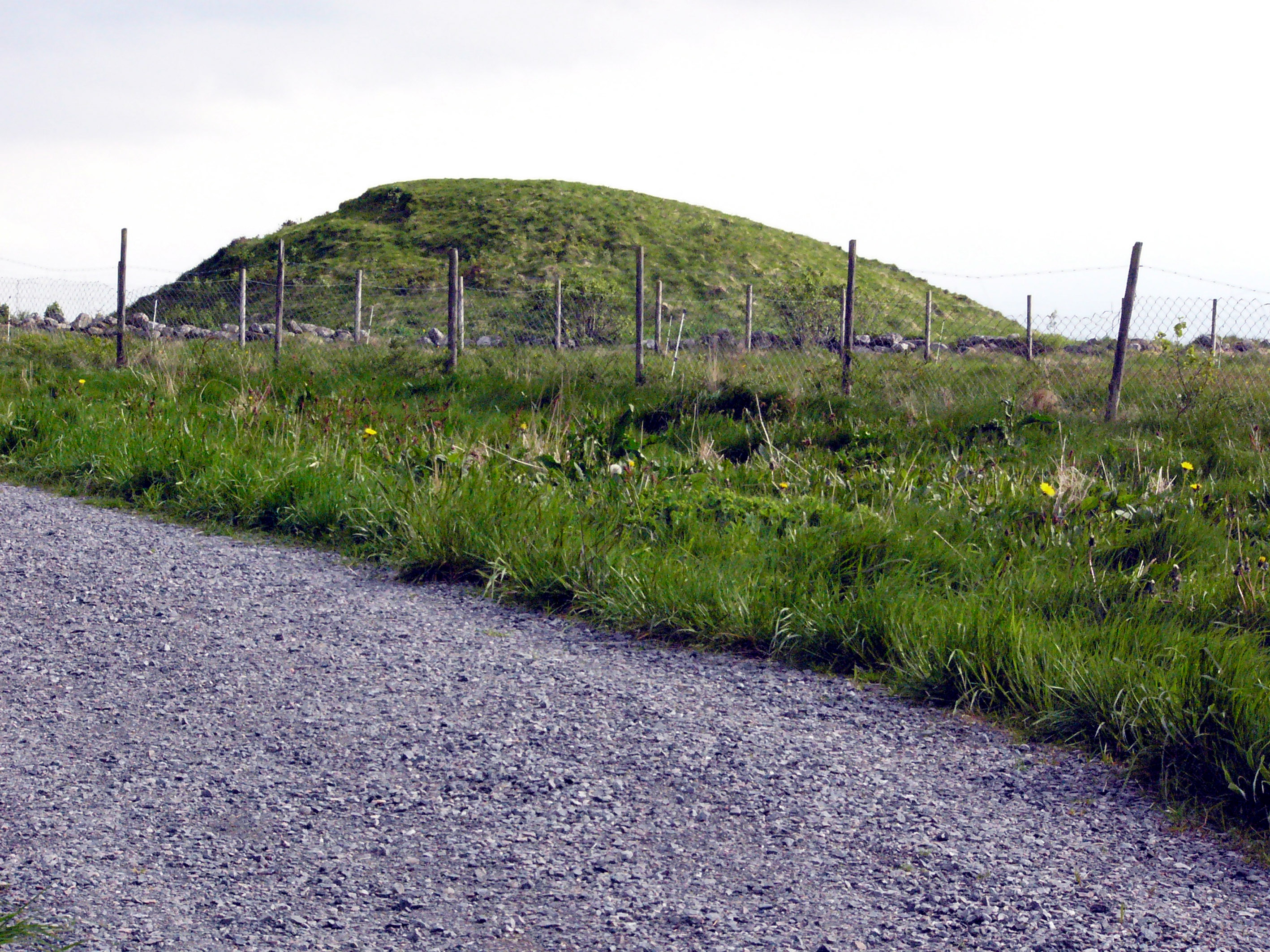 Burial mounds in Karmøy (Norway) from the Bronze Age.